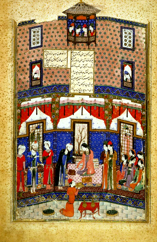 Farhad meets Shirin. Persian (text) Miniature from poem "Khosrow and Shirin" of Nizami Ganjavi